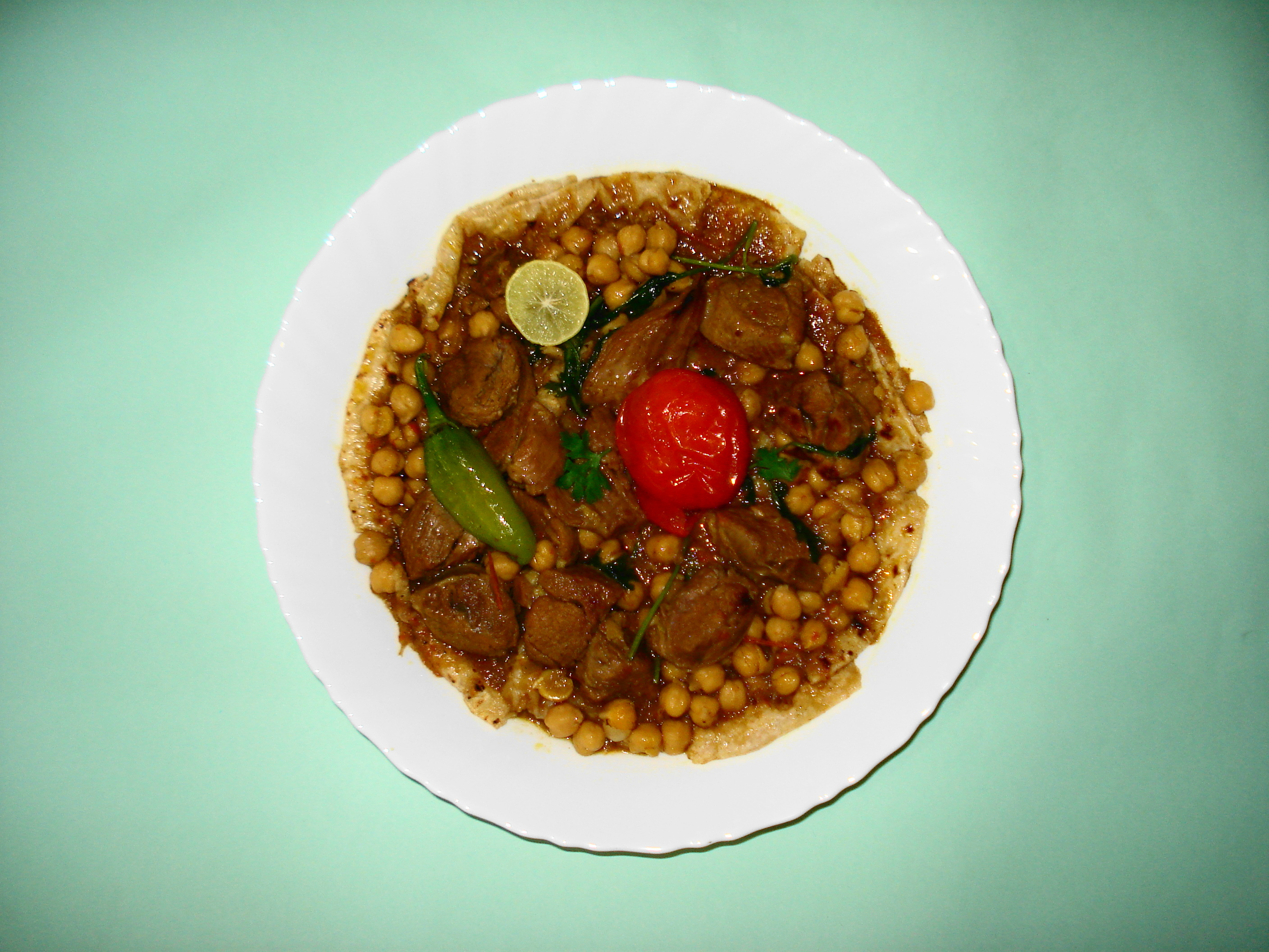 Tharid , Sareed